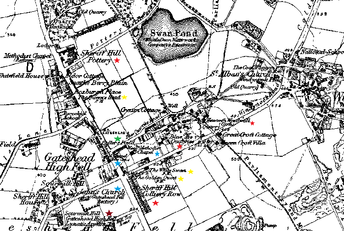 This Ordnance Survey Map shows Sheriff Hill in 1862. The map has been annotated: Key Yellow- Public Houses Red- Elements of heavy industry Blue- Places of Worship Green- Potter's Field (now Hodkin Park) Brown- Sheriff Hill Lunatic Asylum